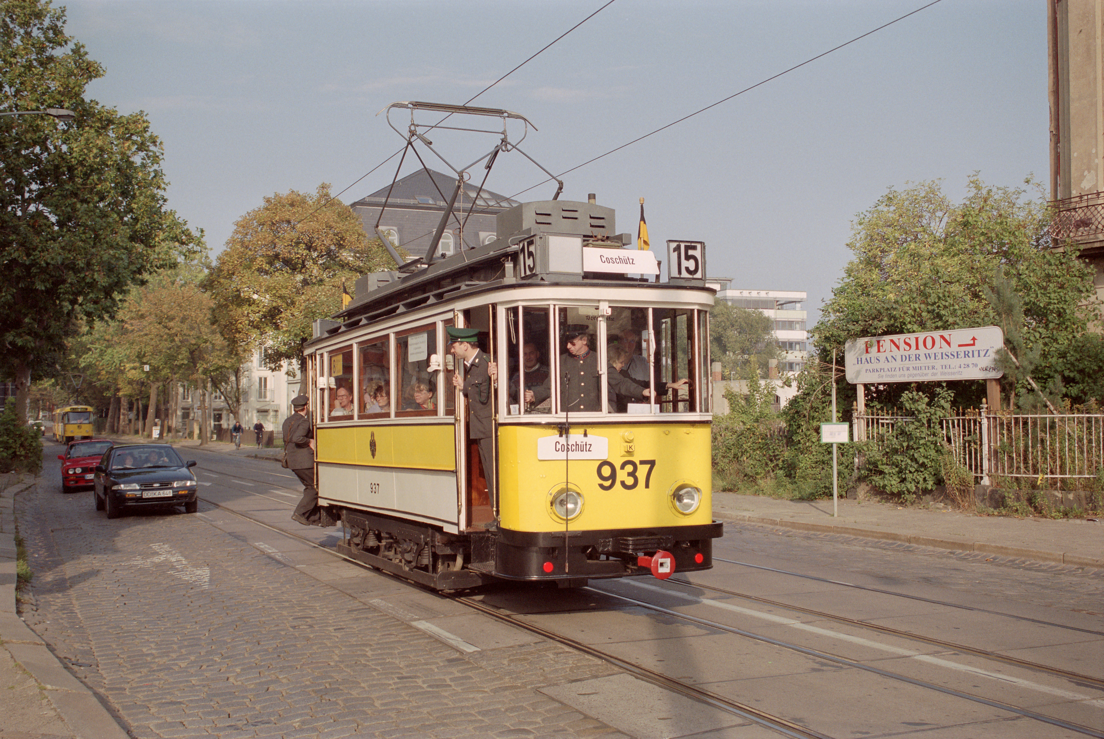 Historical tram, built 1927 in Dresden on a Union-chassis can be used on steep tracks (note the red coupling) own picture, taken in late summer 1998 in Dresden